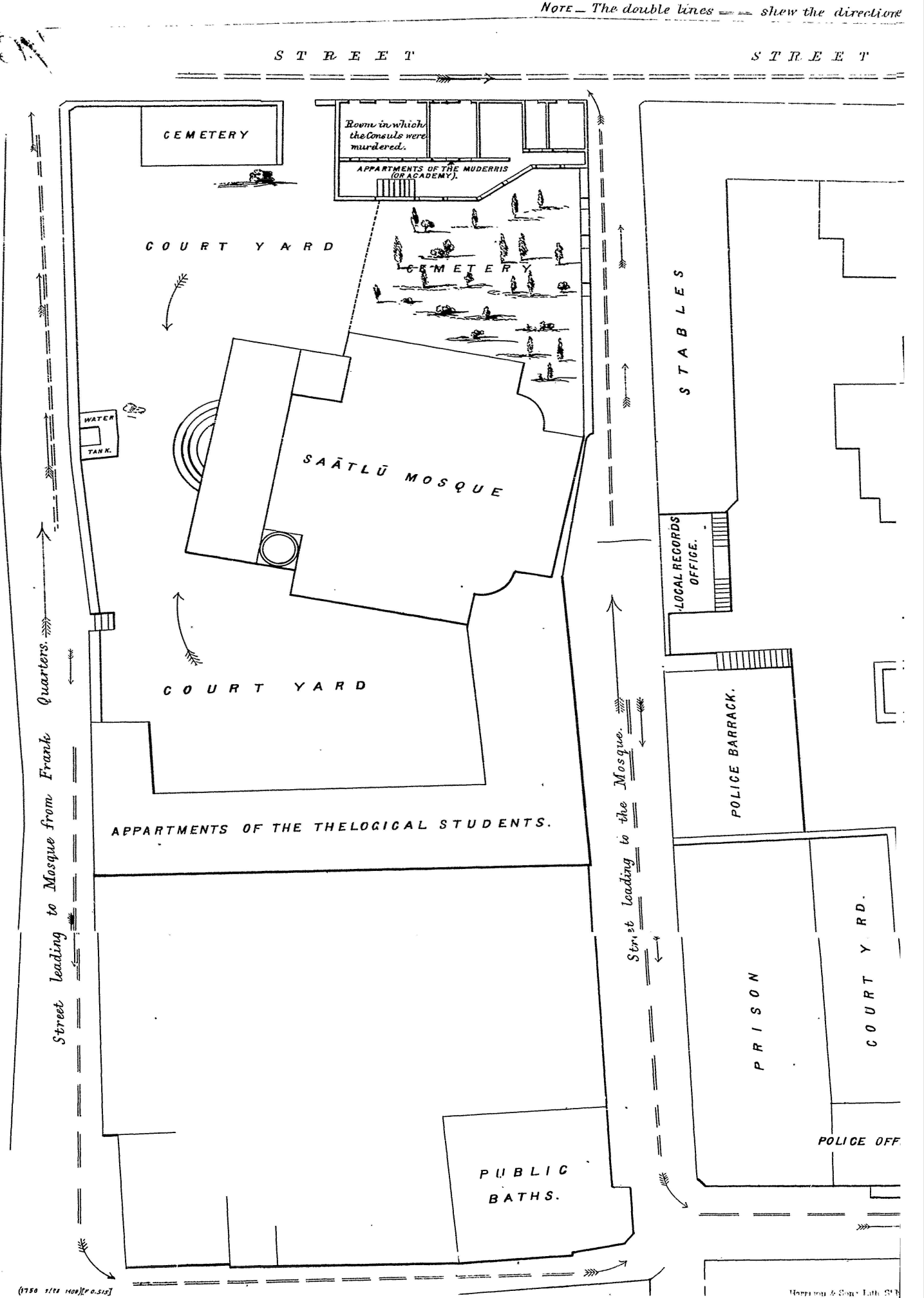 Plan of the area where the massacre of consuls happened in Thessaloniki, drawn by British consul John E. Blunt, 1876